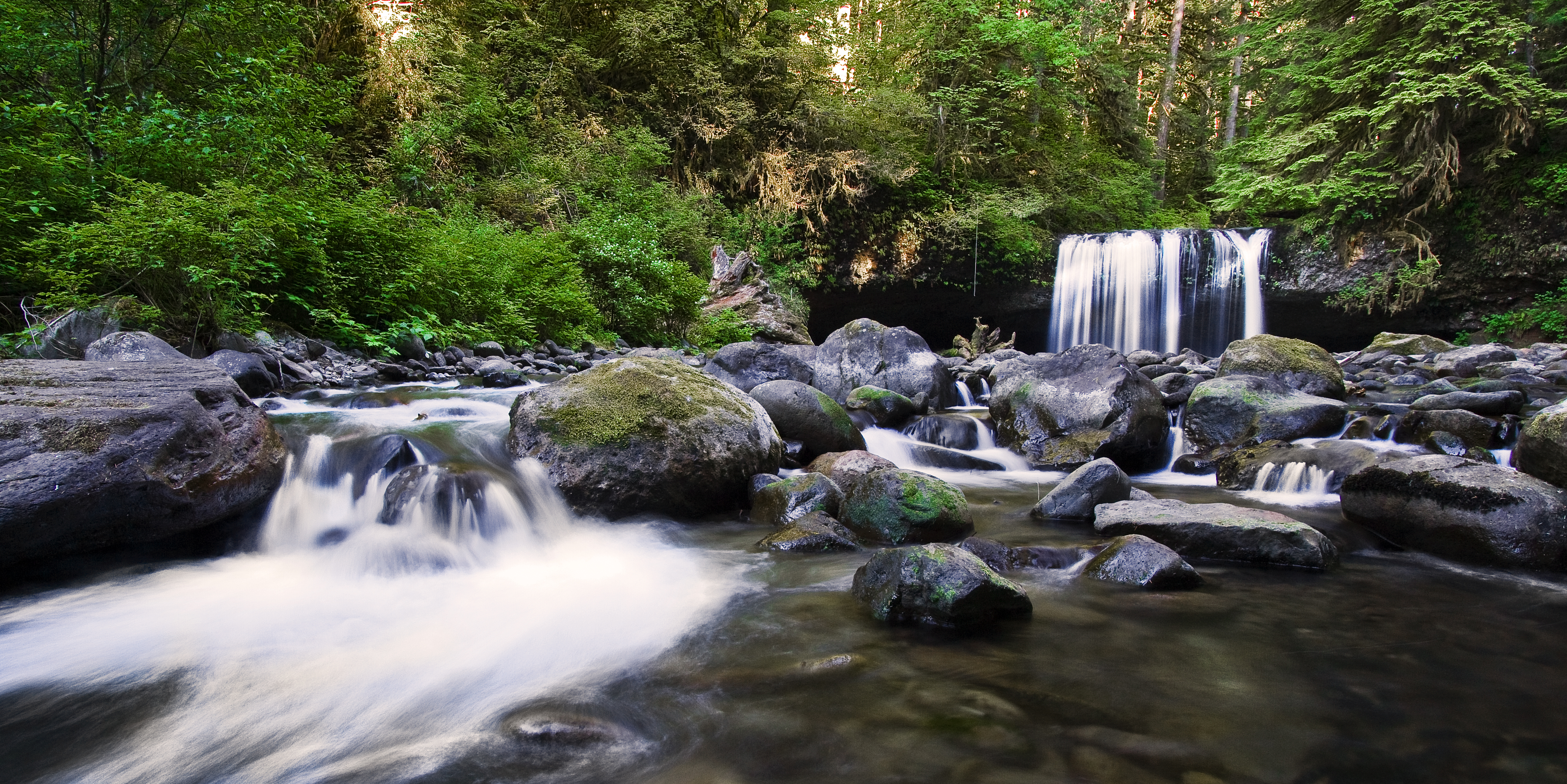 Butte Creek, a stream in northwestern Oregon, United States